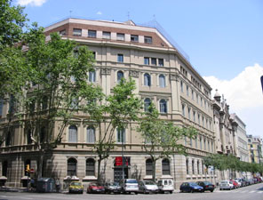 Front of Col·legi Casp-Sagrat Cor de Jesús